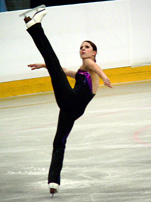 Olga Ikonnikova during her short program at the 2006 Junior Grand Prix event in The Hague, Netherlands